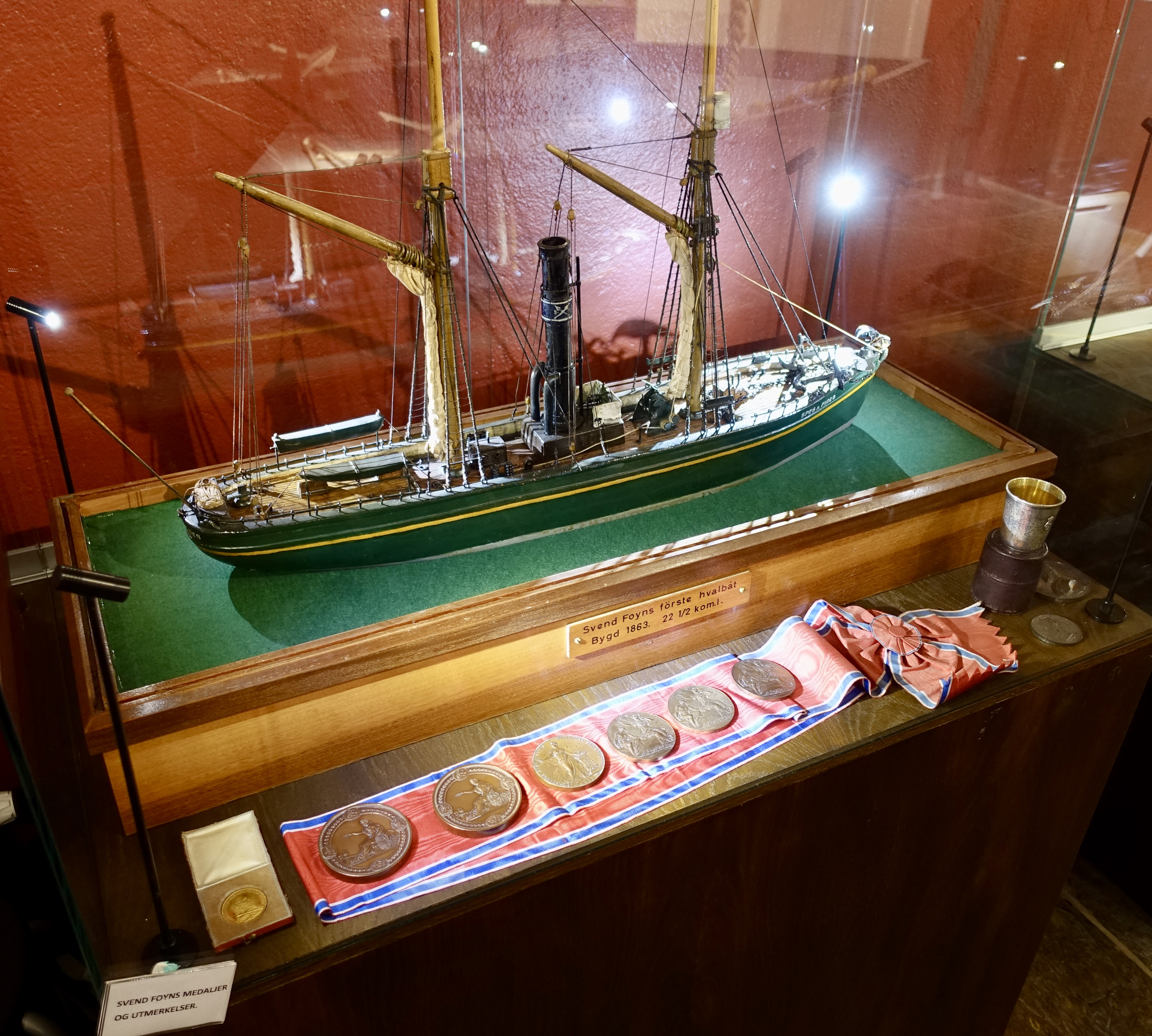 "Svend Foyn's medals and awards" and a ship model of "Spes & Fides", the world's first whale catcher steamship built for Svend Foyn in 1863. From the exhibition on Svend Foyn (1809–1894), a Norwegian whaling pioneer introducing the modern harpoon cannon in 1870, at the Slottsfjellsmuseet, a local history museum in Tønsberg in Vestfold og Telemark County, Norway. Photo taken on January 21st, 2020.